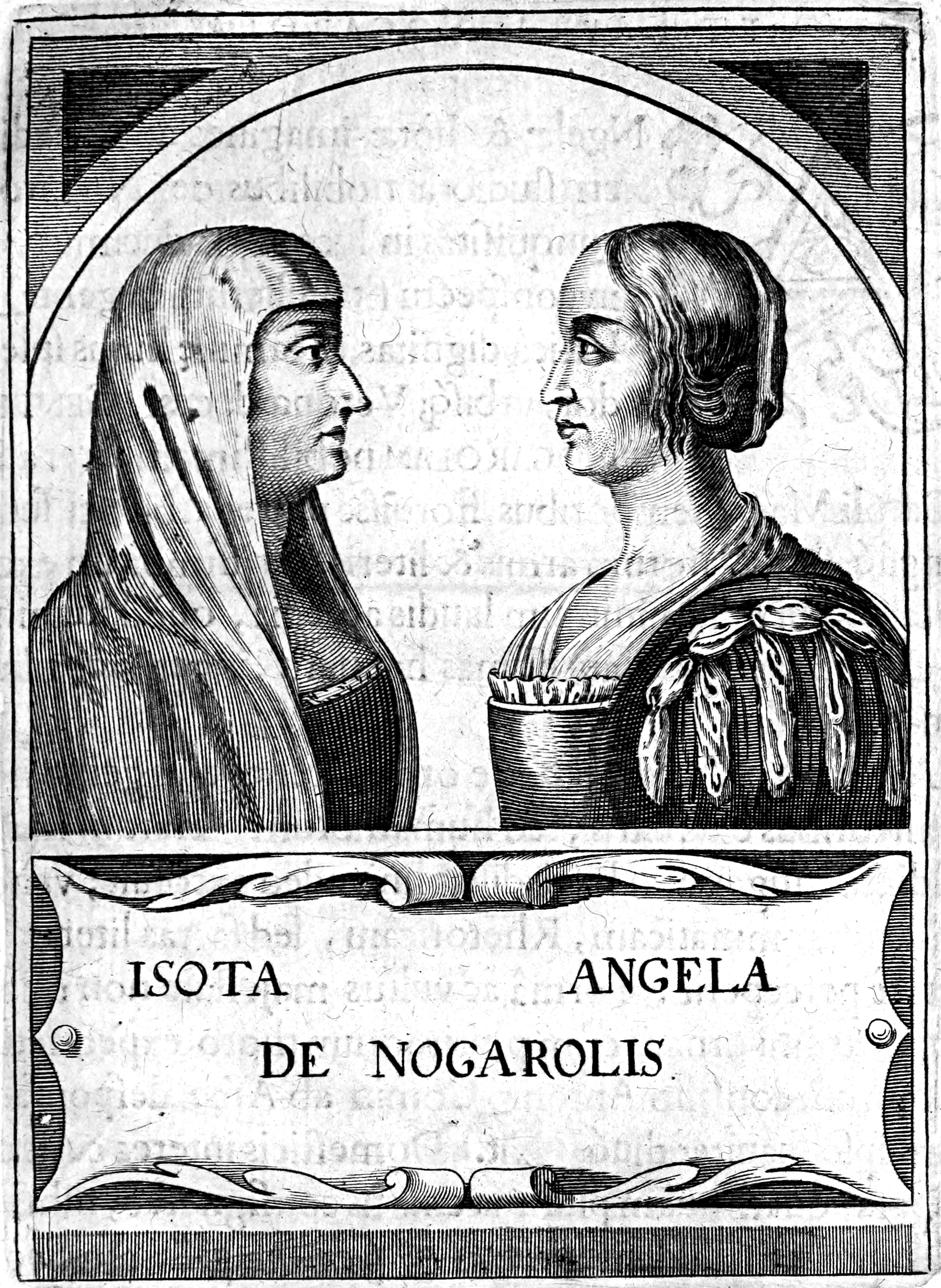 Isotta Nogarola, with Angela Nogarola (her aunt poetess)